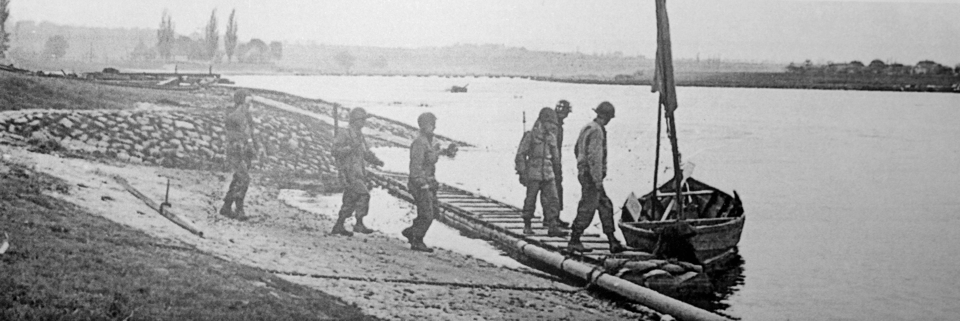 fist Lt. Kotzebue and his patrol at river Elbe in Strehla ahead of Lorenzkirch